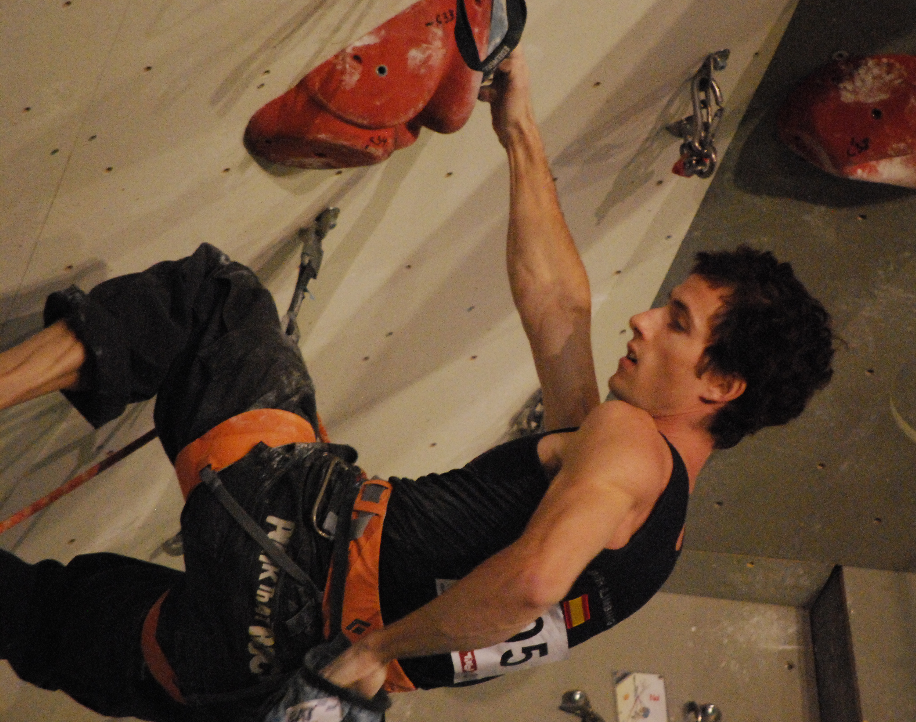 Patxi Usobiaga Lakunza, World Cup Imst 2009